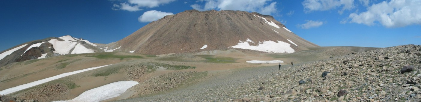 Near the peak of Suphan Dagi